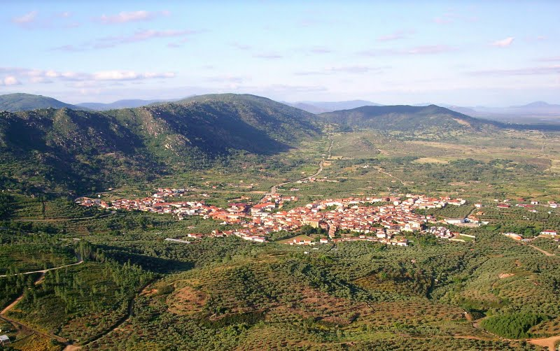 Panorámica Cilleros